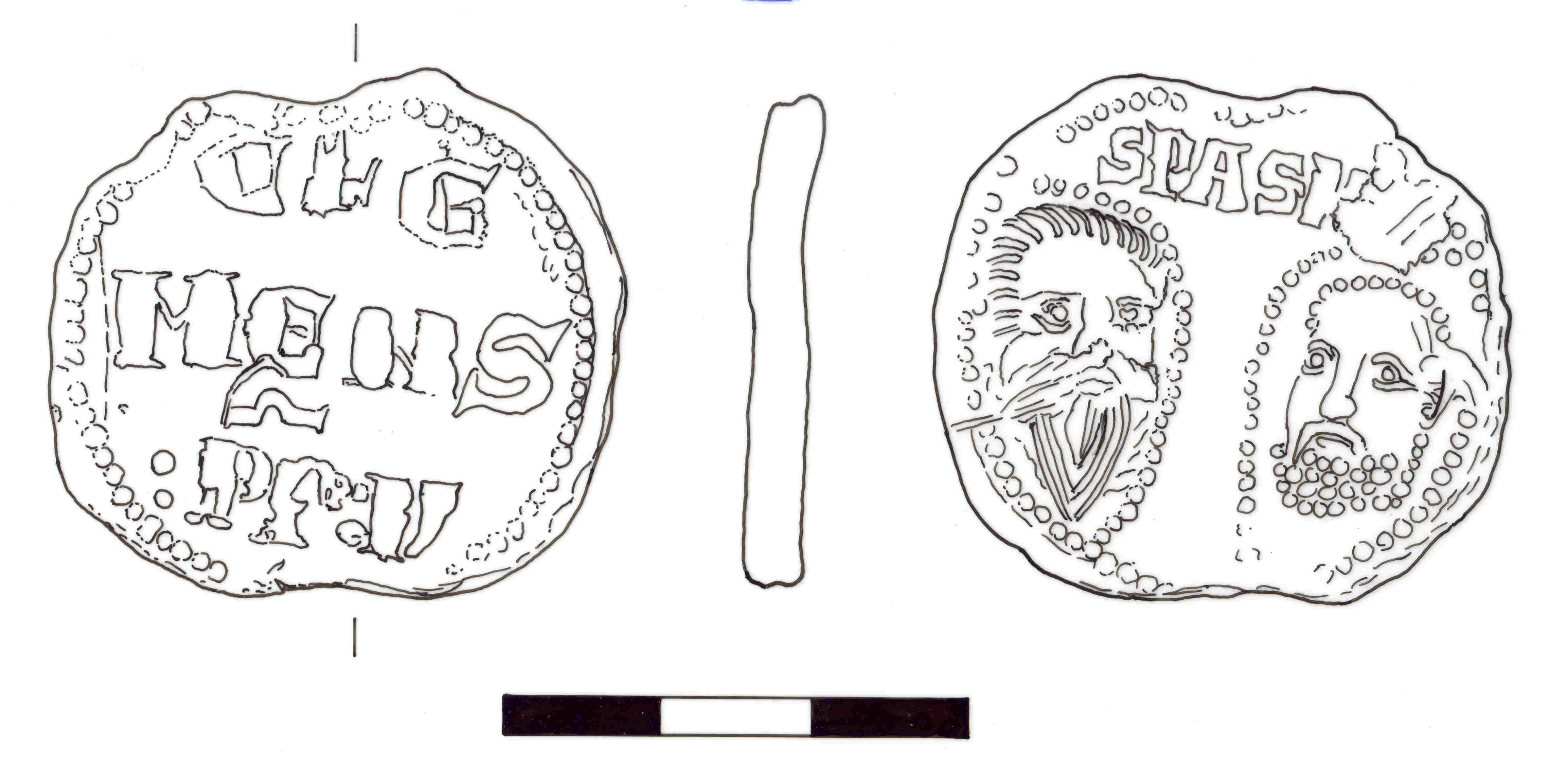 A lead papal bulla, from the Medieval period. Papal bullae are lead seals which were attached to documents known as bulls, issued by the Papacy. The obverse depicts the heads of St. Paul and St. Peter, with a sceptre between them. The two heads are each surrounded by a circle of pellets. The legend above the two heads reads SPASP[E] the E has been scuffed away by later damage. The ploughshare probably caused this damage. The reverse depicts the name and number of the Pope. The legend reads CLE/ MENS/ :PP:V (written on three lines). This name refers to Clement V (1305-1314). The papal bulla is roughly circular in shape measuring 34.2mm x 37.2mm. The edges of the papal bulla have been damaged, although unlike the scuff mark this damage looks well worn. The lead has gone a mid whitish-cream.